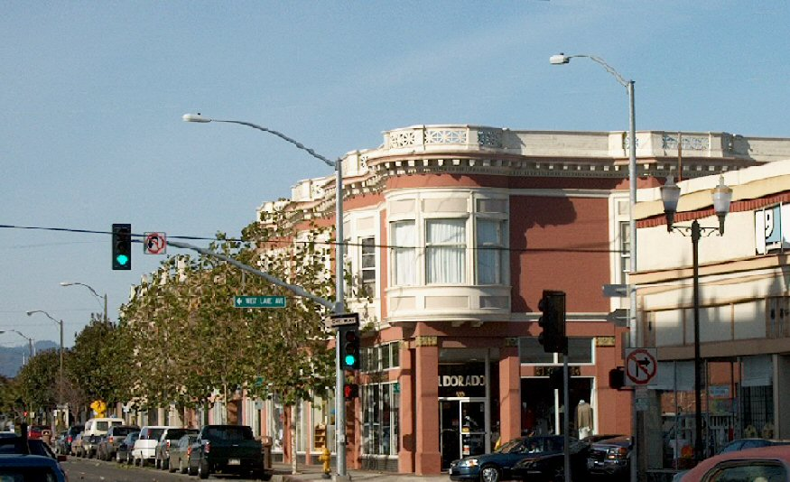 Watsonville, California.